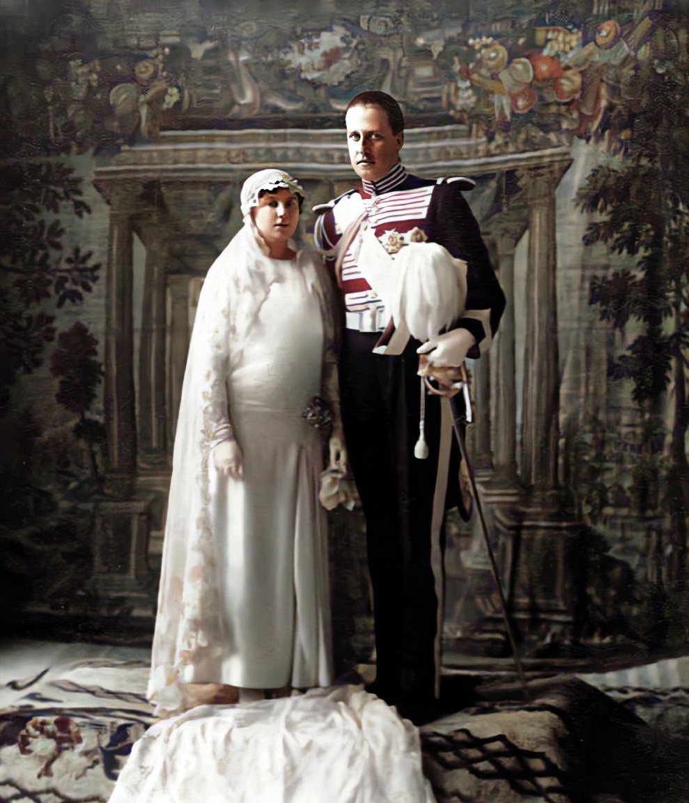 Isabel Alfonsa and Juan Cancio wedding